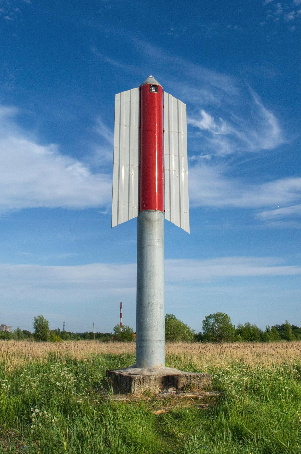 Kopli Bay front light beacon